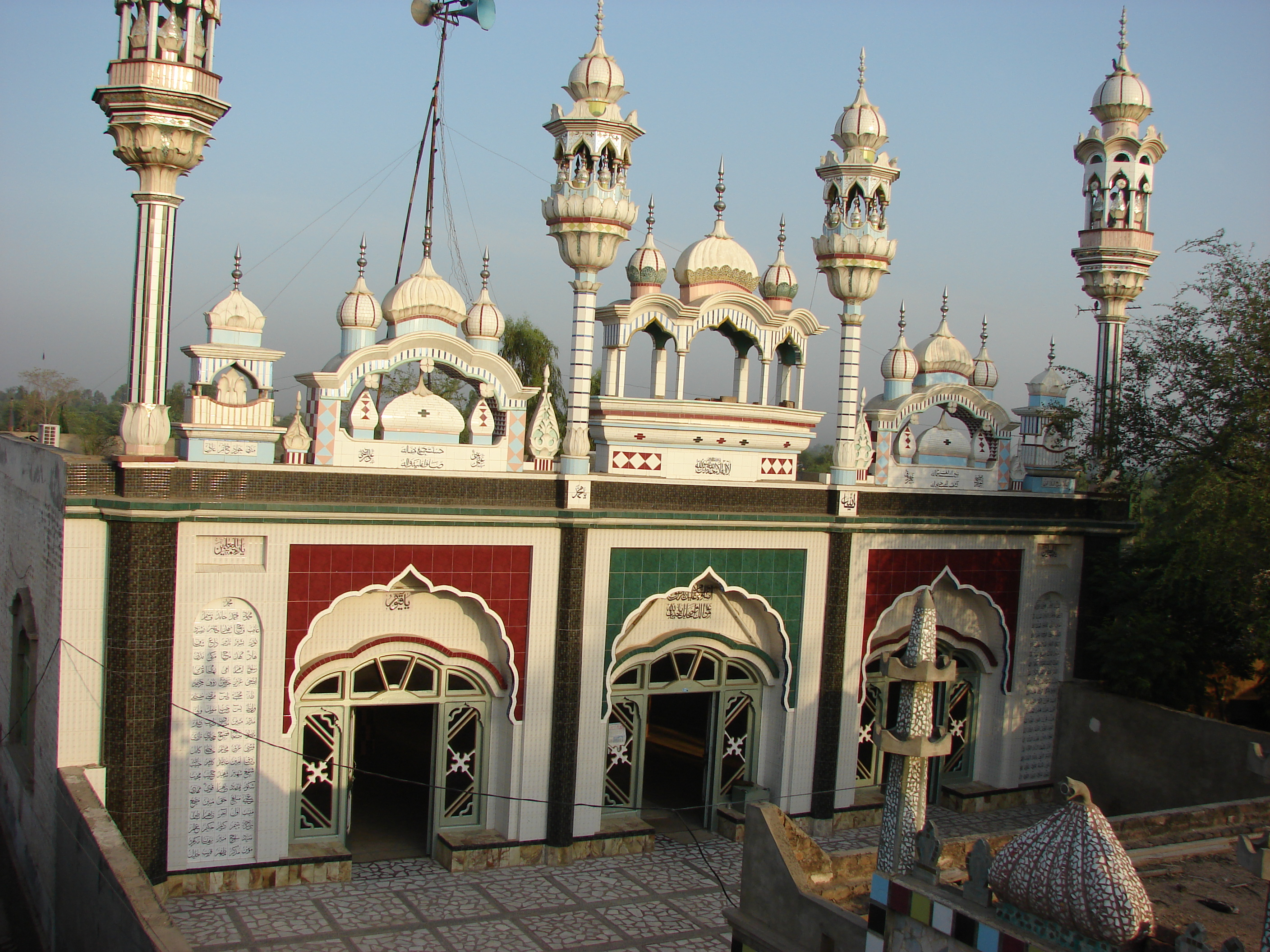 A Beautiful Masjid in Busal.